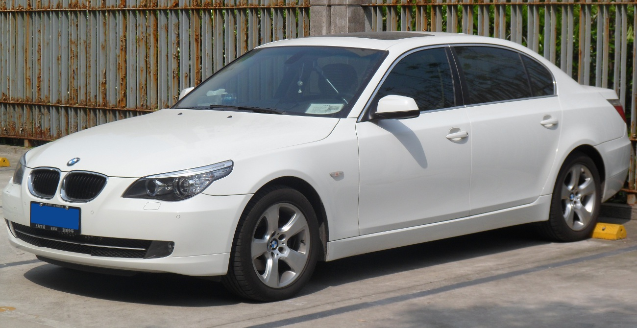 BMW 5-Series E60 Li photographed in Shanghai, China.